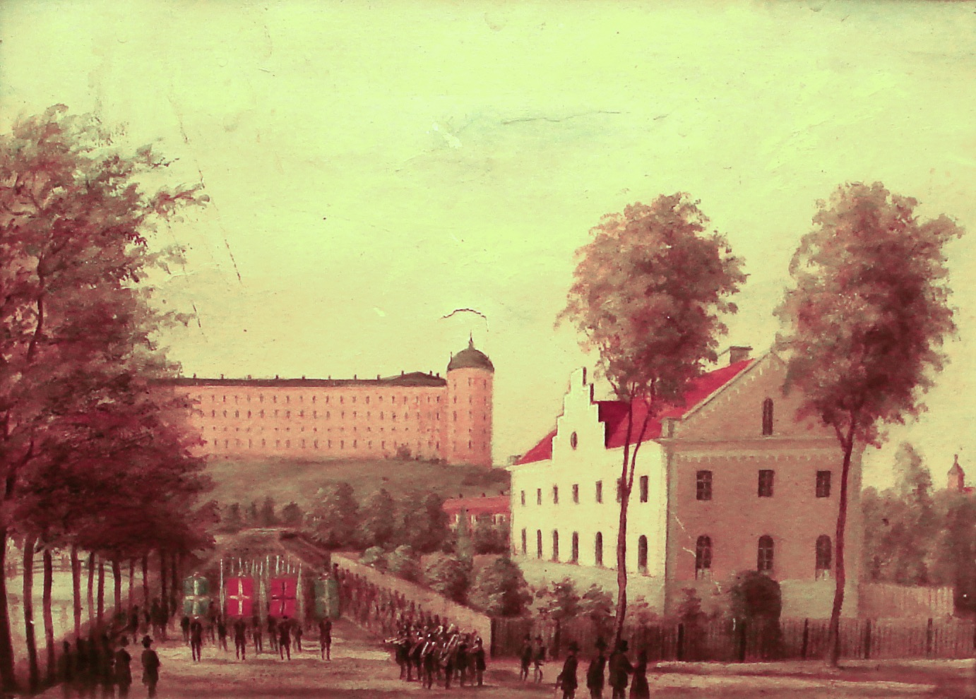 Nordic student meeting 1856, Photo of painting.